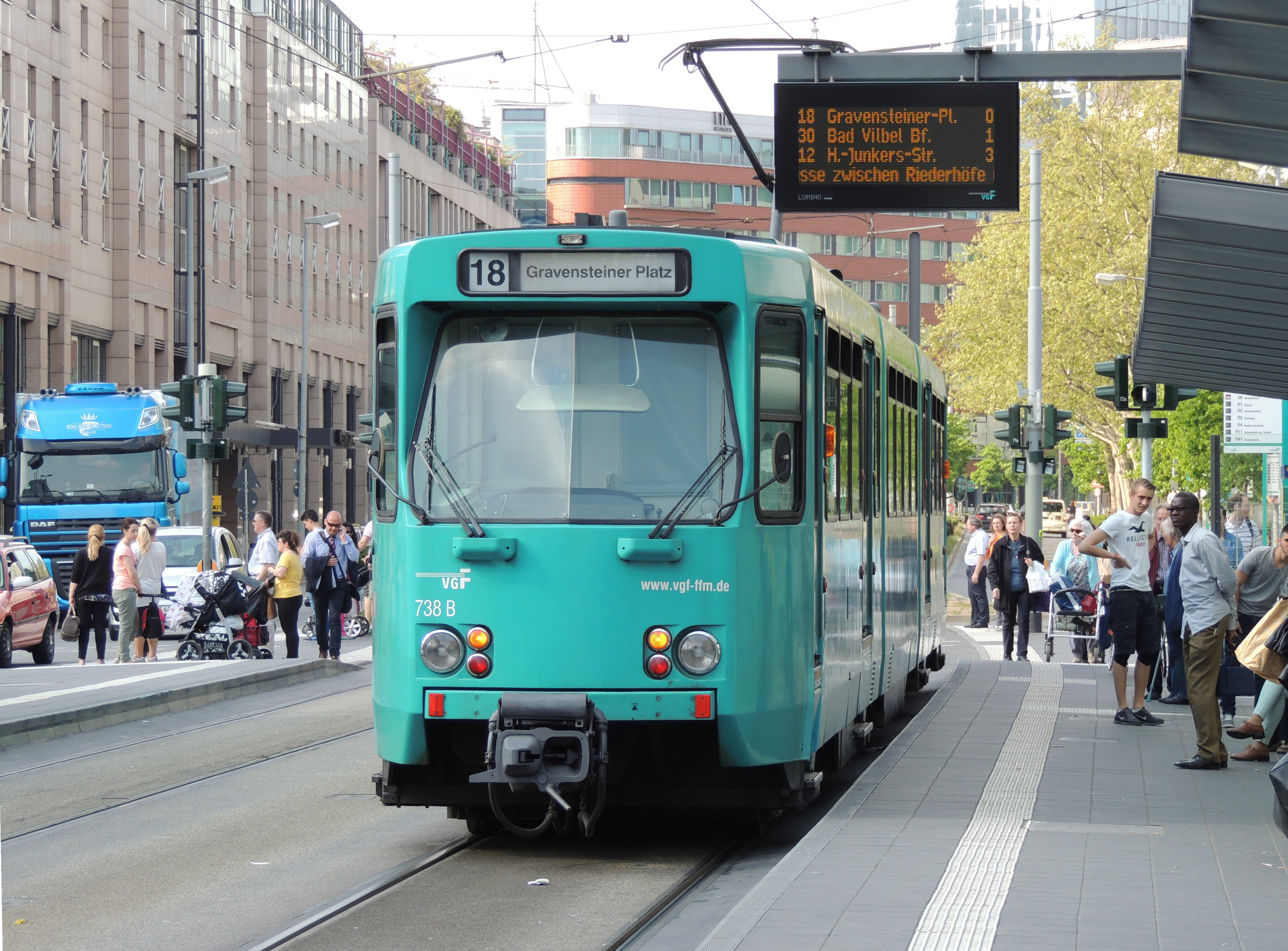 VGF type Pt railcar 738 at Konstablerwache, Bornheim, Frankfurt am Main, Germany, May 8th, 2013